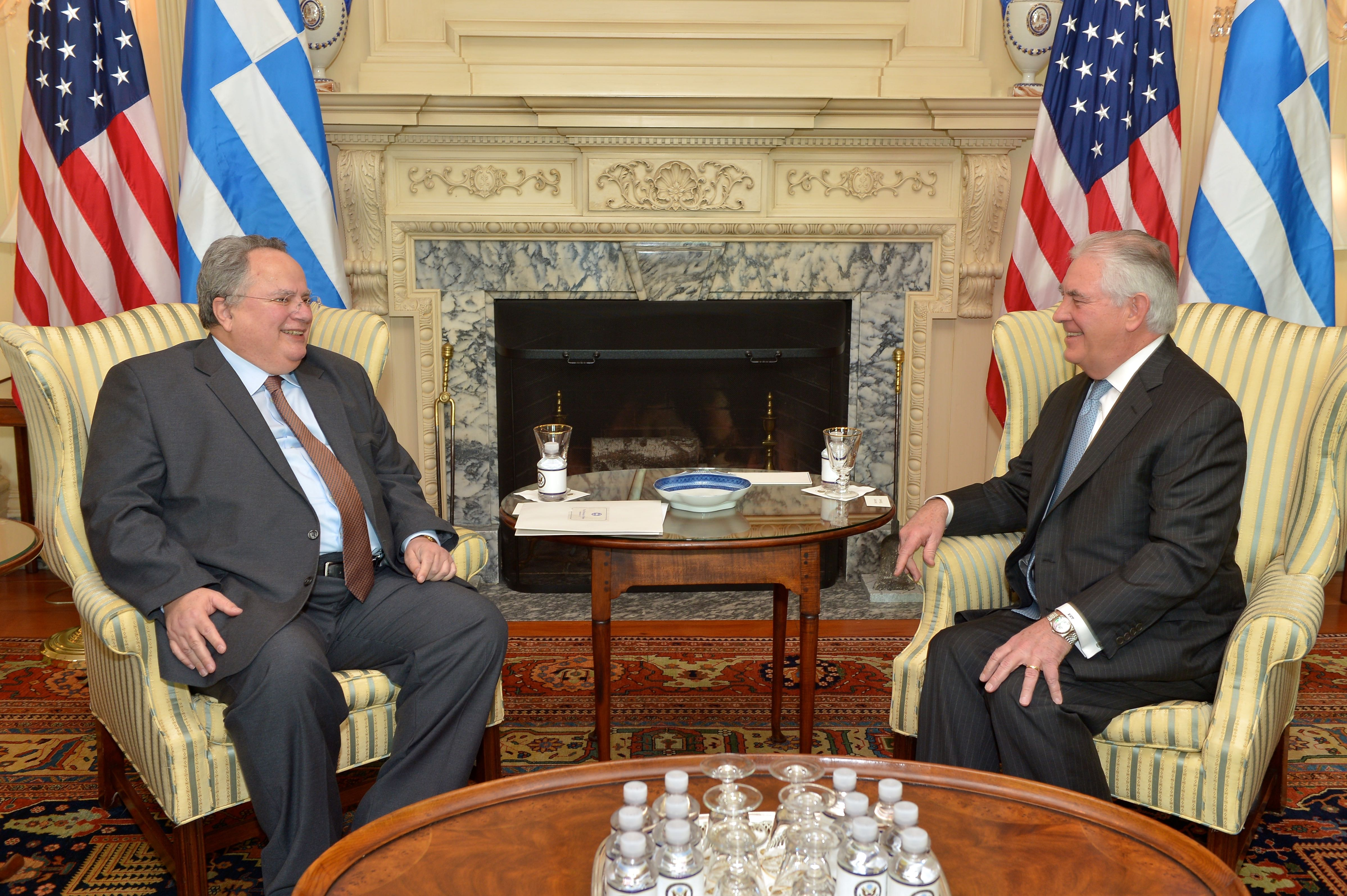 U.S. Secretary of State Rex Tillerson meets with Greek Foreign Minister Nikos Kotzias at the U.S. Department of State in Washington, D.C., on March 13, 2017. [State Department photo/ Public Domain]